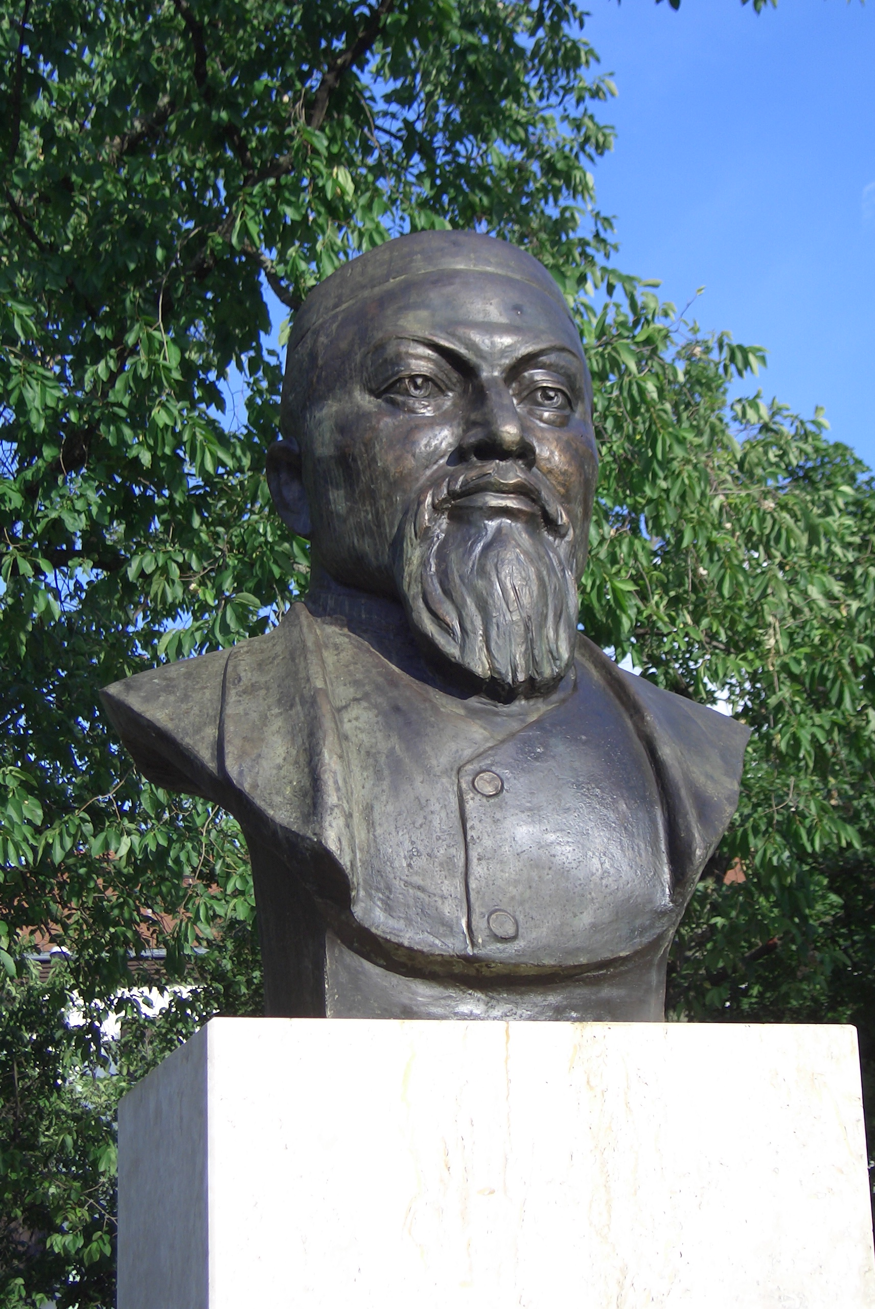 Monument of Abai Qunanbaiuli (1845–1904) kazakh poet, composer, philosopher in Budapest, City Park (er. 2014).